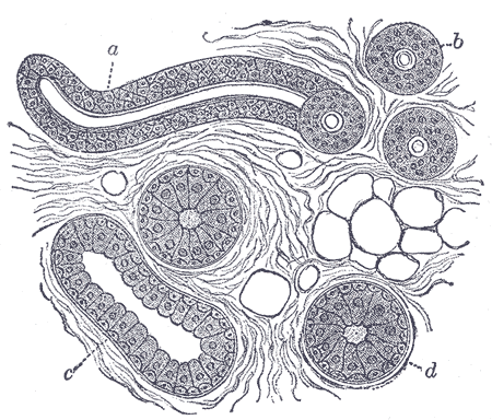 Body of a sudoriferous-gland cut in various deirections. a. Longitudinal section of the proximal part of the coiled tube. b. Transverse section of the same. c. Longitudinal section of the distal part of the coiled tube. d. Transverse section of the same. (Klein and Noble Smith.)